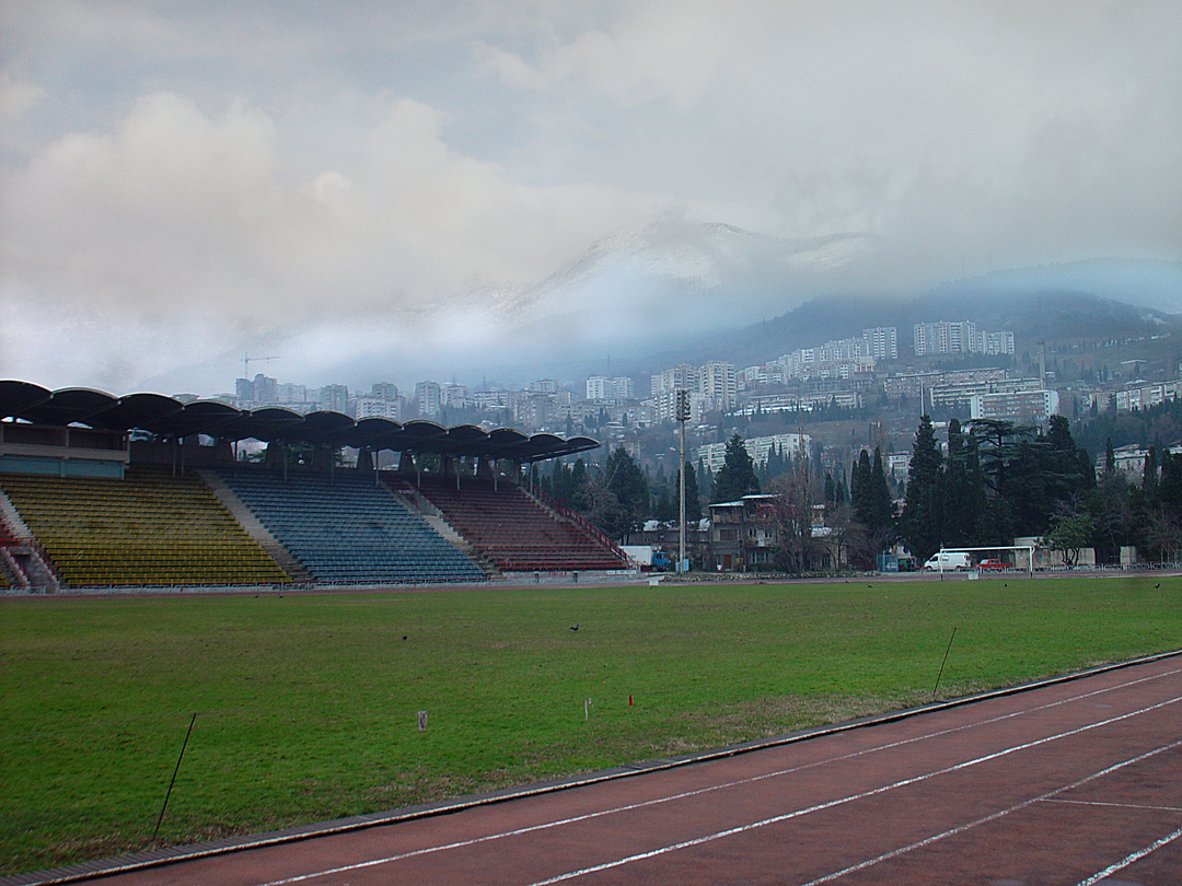 Avanhard Stadium in Yalta, Crimea, Ukraine